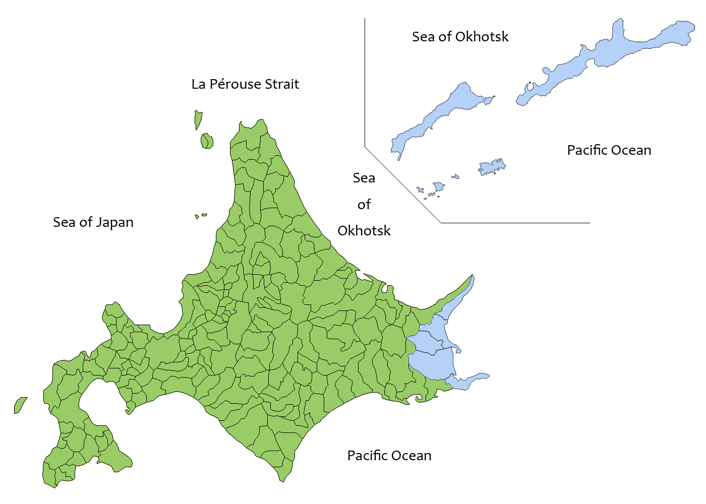 Map of Nemuro subprefecture in English